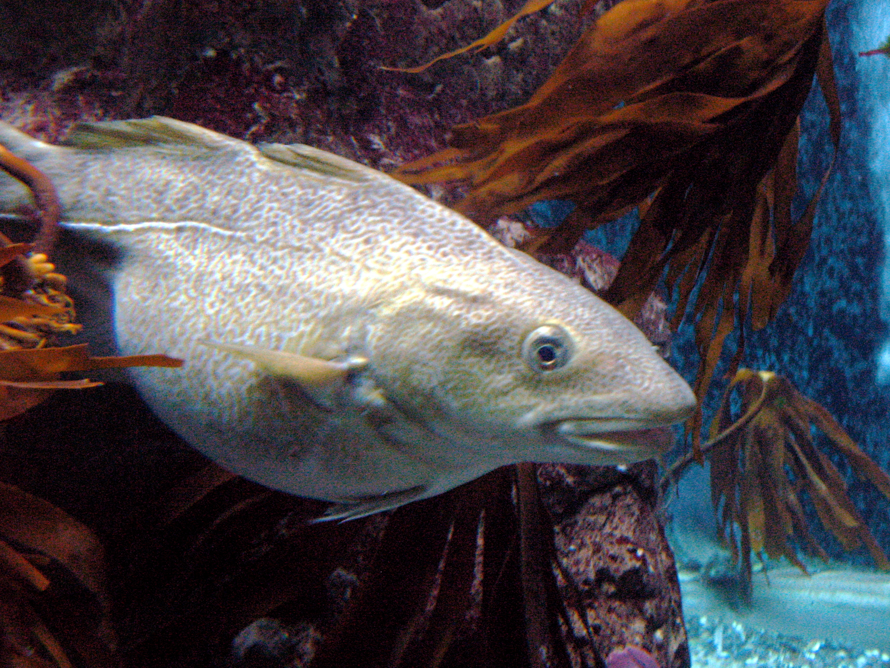 This was the biggest one in the tank. Movie here (of a different fish)